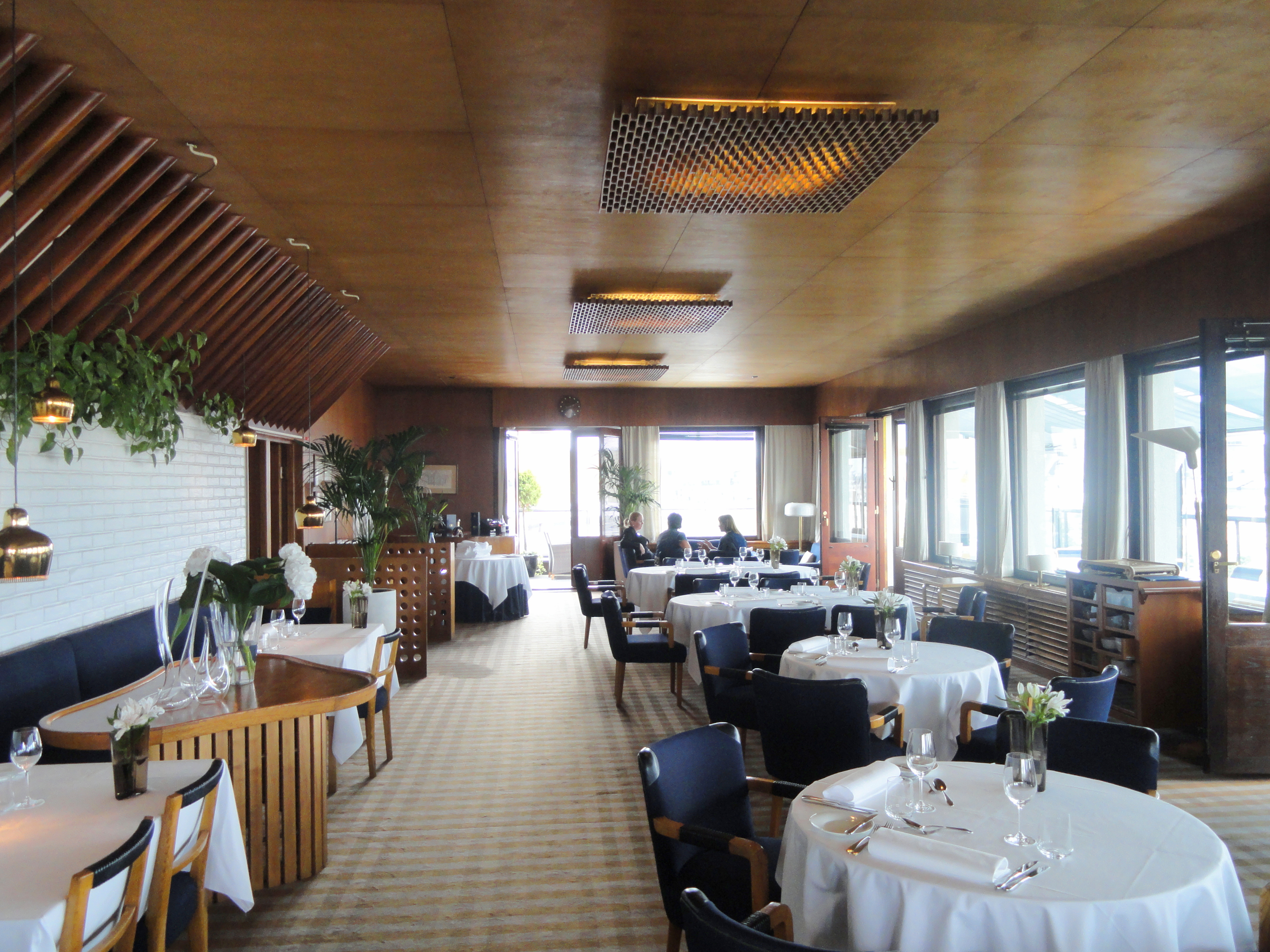 Interior of Restaurant Savoy in Helsinki, Finland. Initially designed by Aino and Alvar Aalto in cooperation with textile artist Dora Jung and Artek.